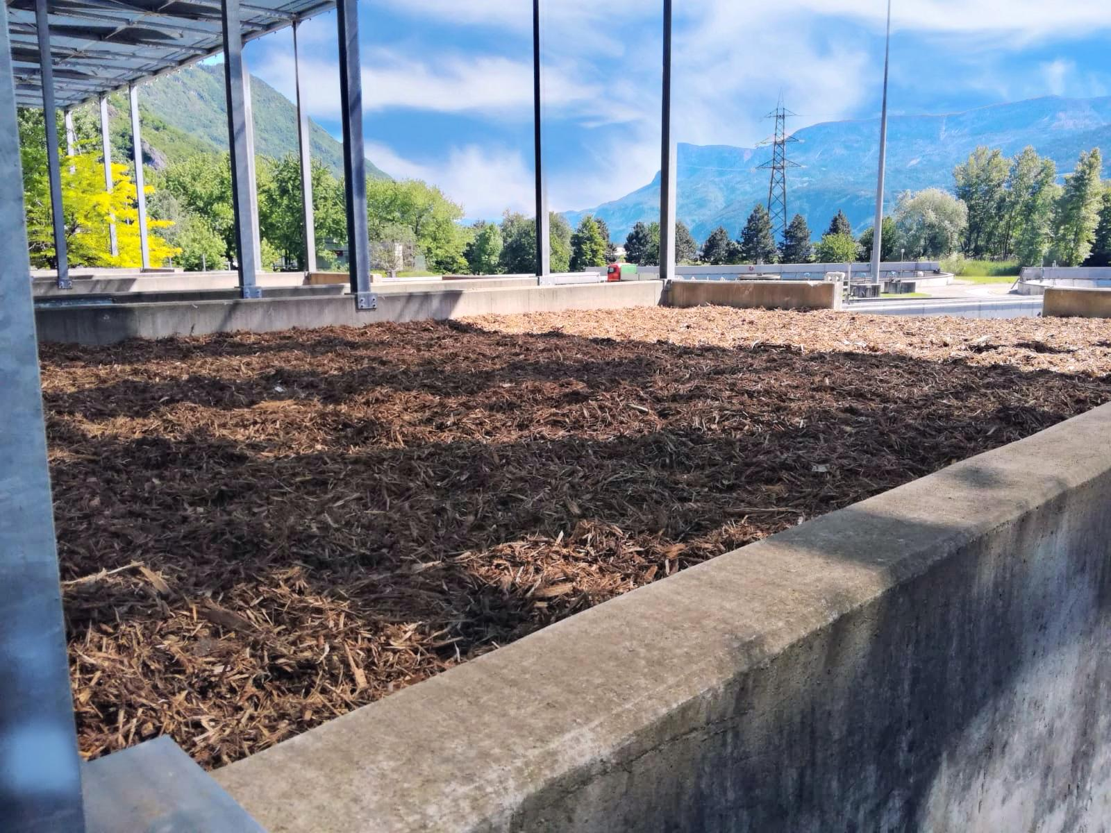 Packed bed for air biofiltration